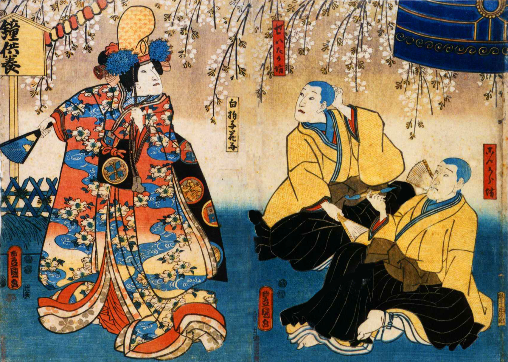 Shūka Bandō I as Shirabyōshi Hanako, Kichisaburō Arashi III as Konkara Bō, and Sanjūrō Seki III as Seitaka Bō, by Toyokuni Utagawa III, from the April 1852 Edo Ichimura-za production of Kyō-ganoko Musume Dōjō-ji